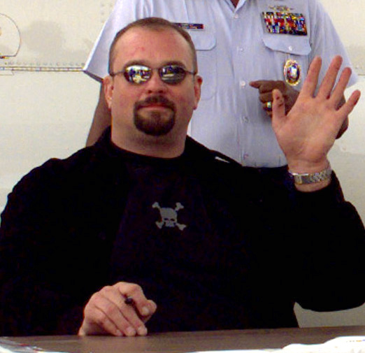 Big Boss Man takes a moment out of his autographing session to pose for the cameras. WWF wrestlers were guest of the Coast Guard at the annual airshow held on Andrews AFB.